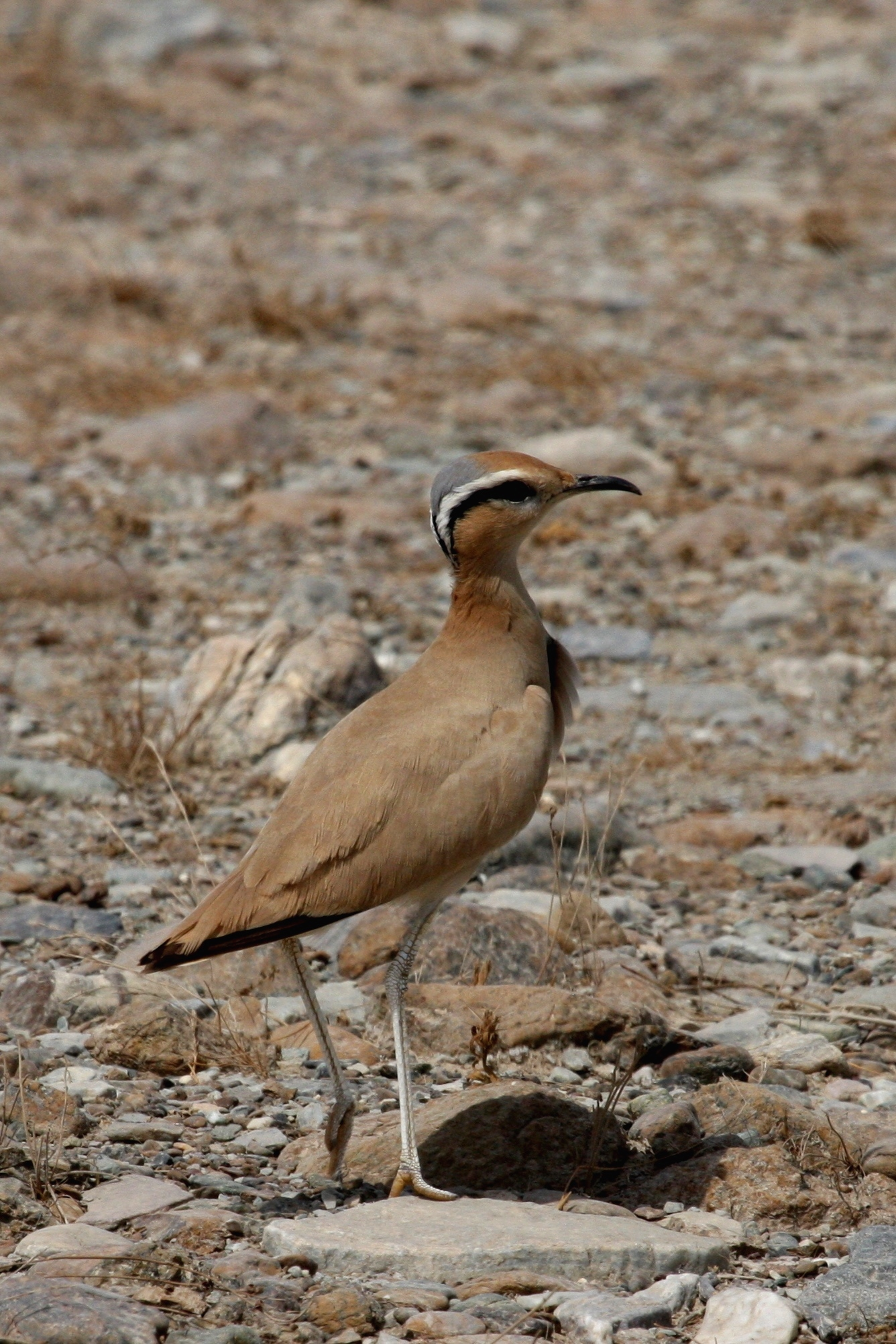 Cream-coloured Courser photographed in Dibba, United Arab Emirates.